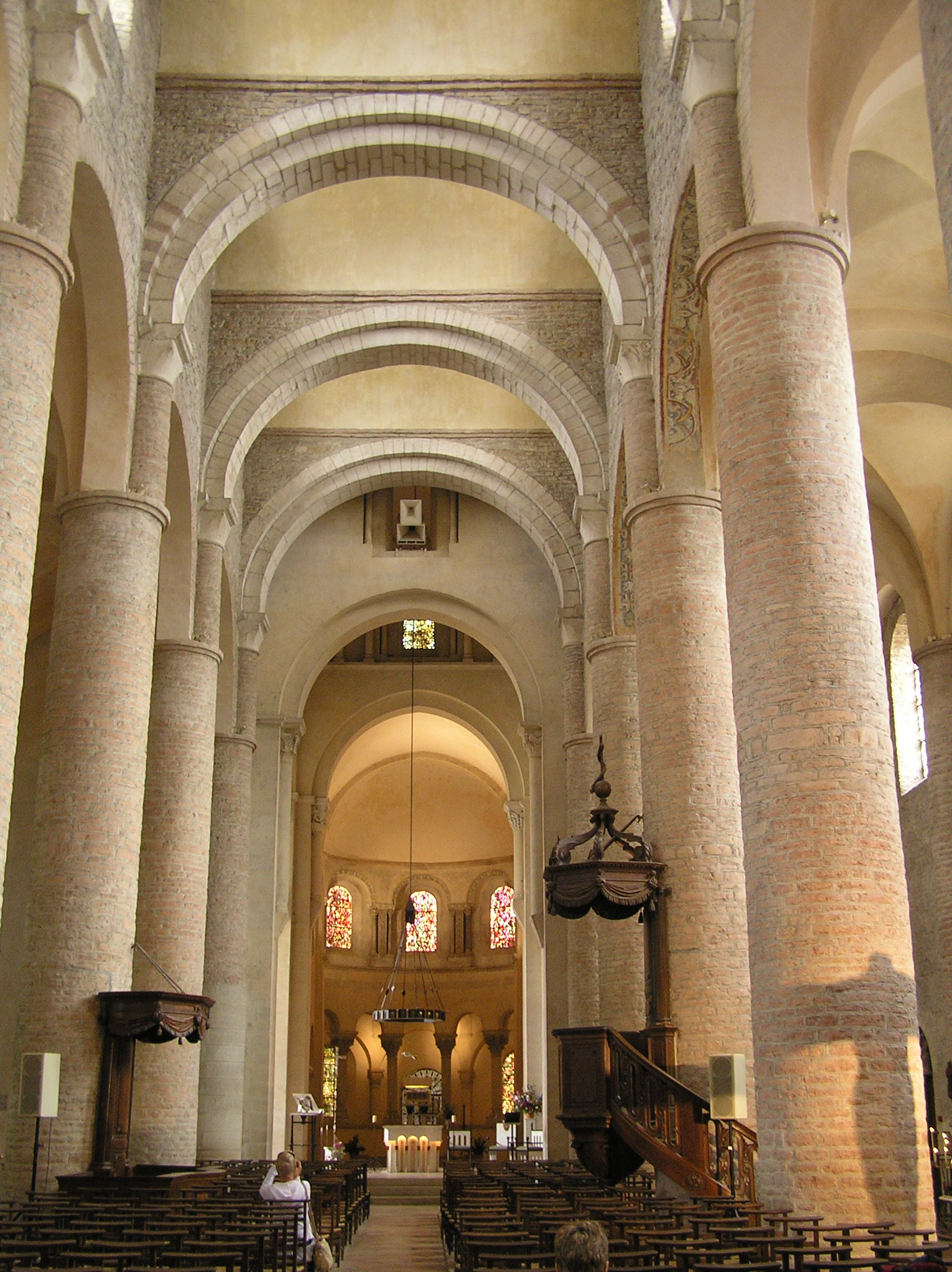 St Philibert, Tournus, Burgundy